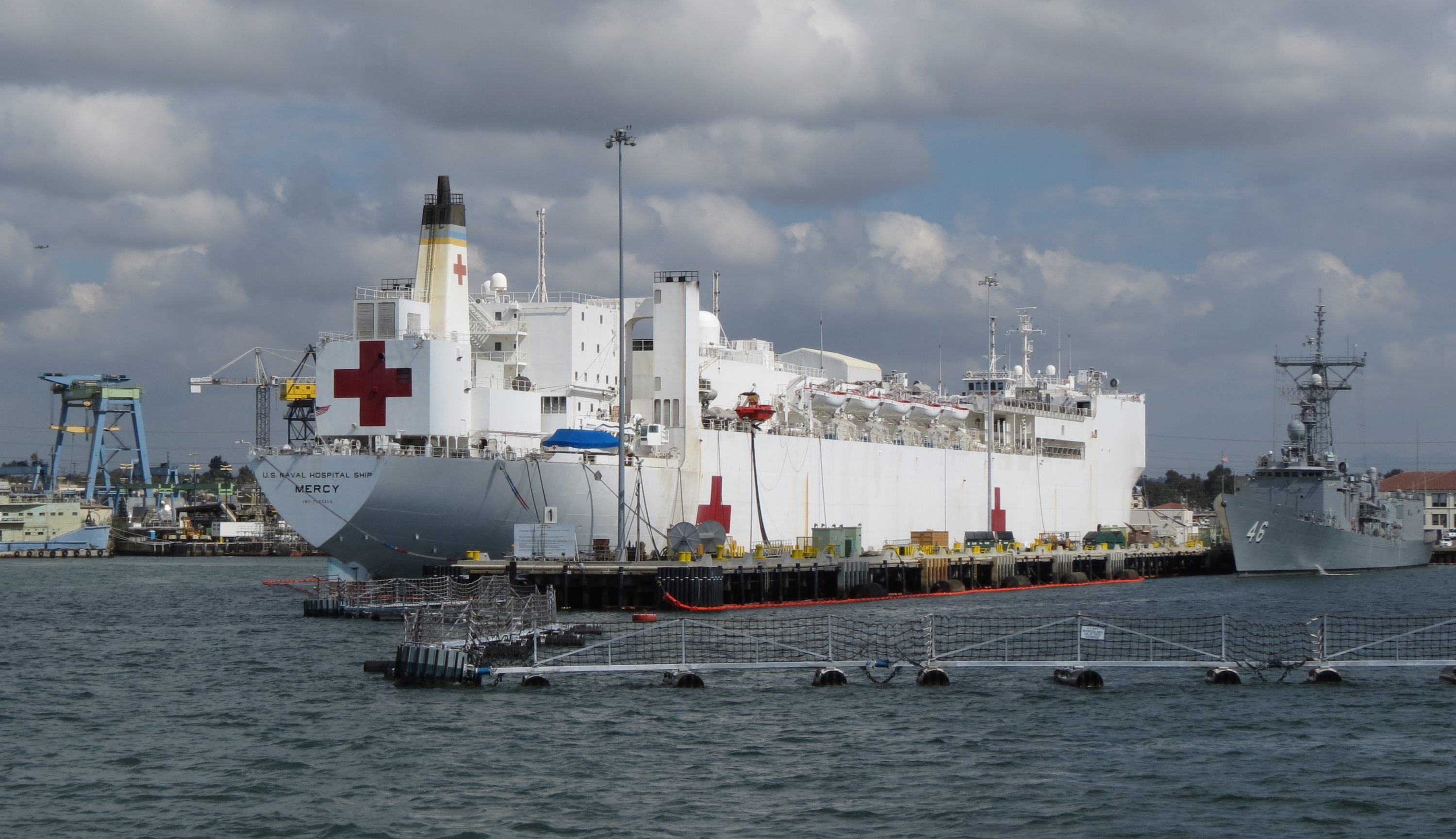 hospital ship USS MERCY, San Diego, California / 2012